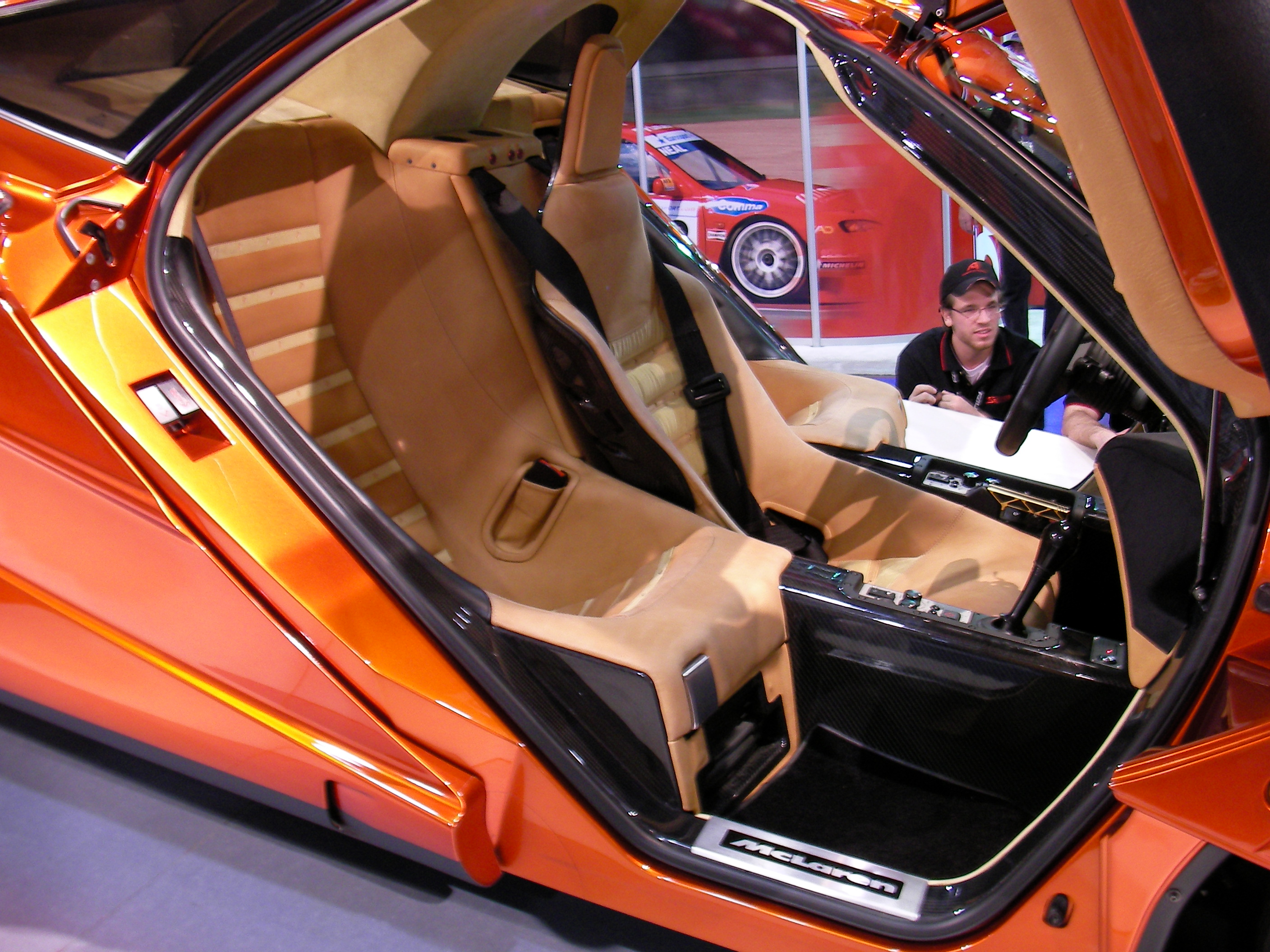 This picture shows the unusual 3-seat arrangement of the McLaren F1.